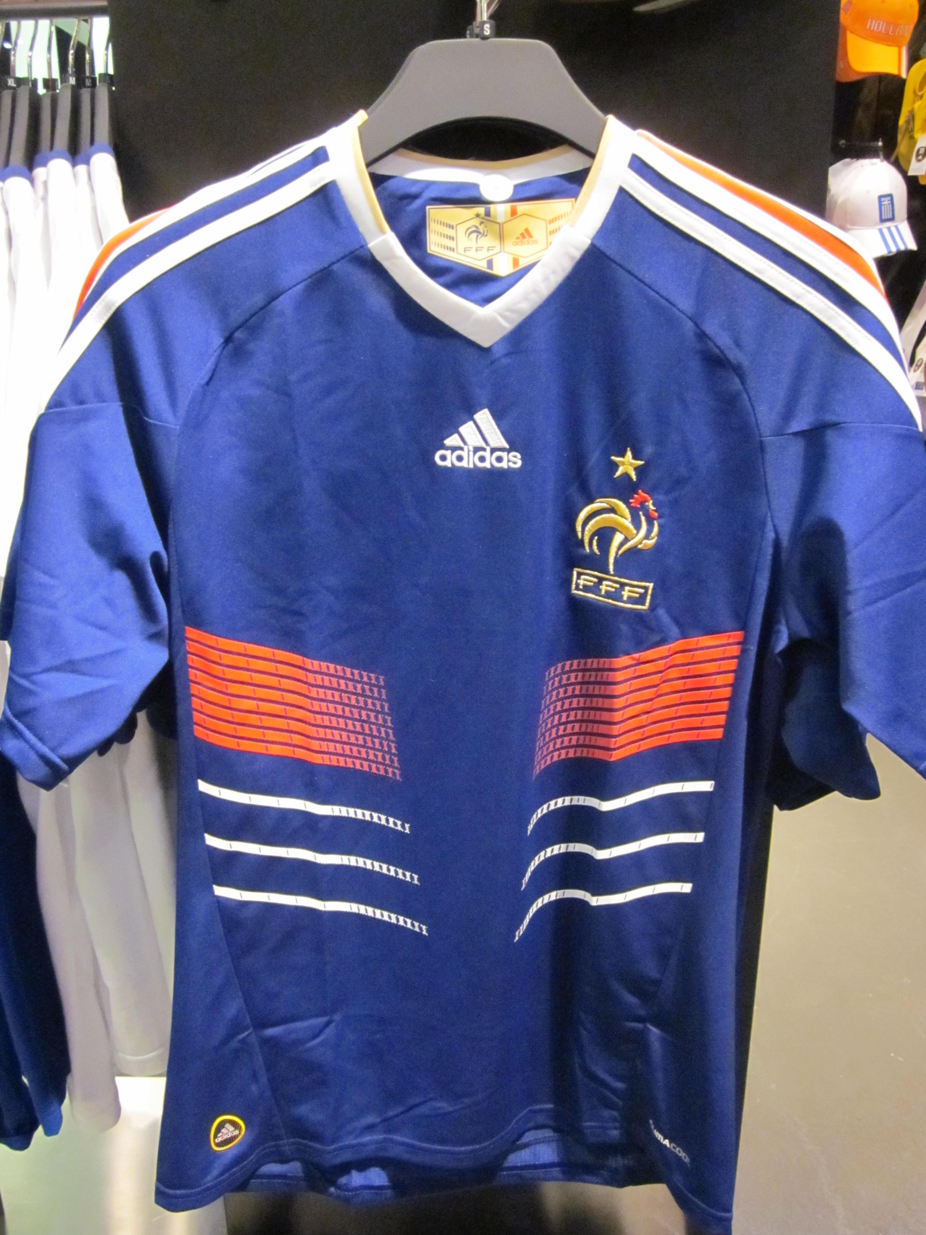 An Adidas France national football team home jersey.